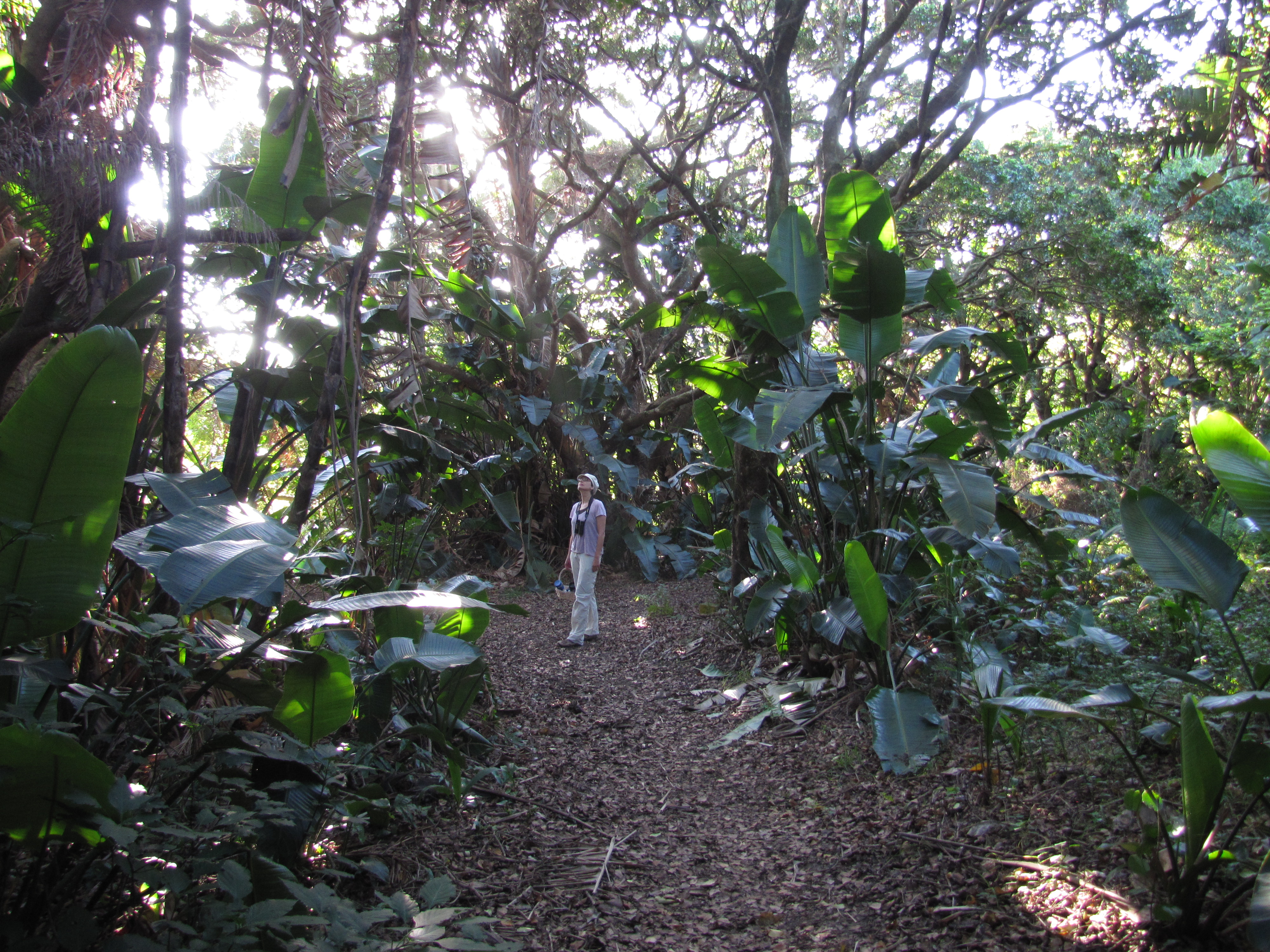 In the riparian forest of Bluff Nature Reserve, Durban, Republic of South Africa. March 2016.